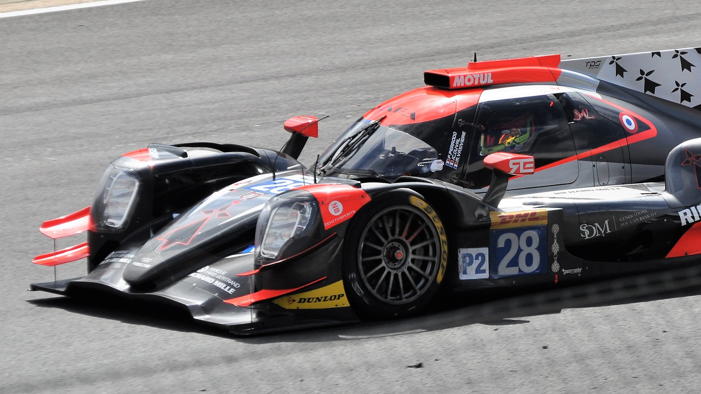 French driver Matthieu Vaxivière lines up the number 28 TDS Racing-entered Oreca 07 car for Abbey corner, during the 2018 6 Hours of Silverstone race. Vaxivière and his co-drivers, François Perrodo and Loïc Duval, eventually finished seventh in the LMP2 class.